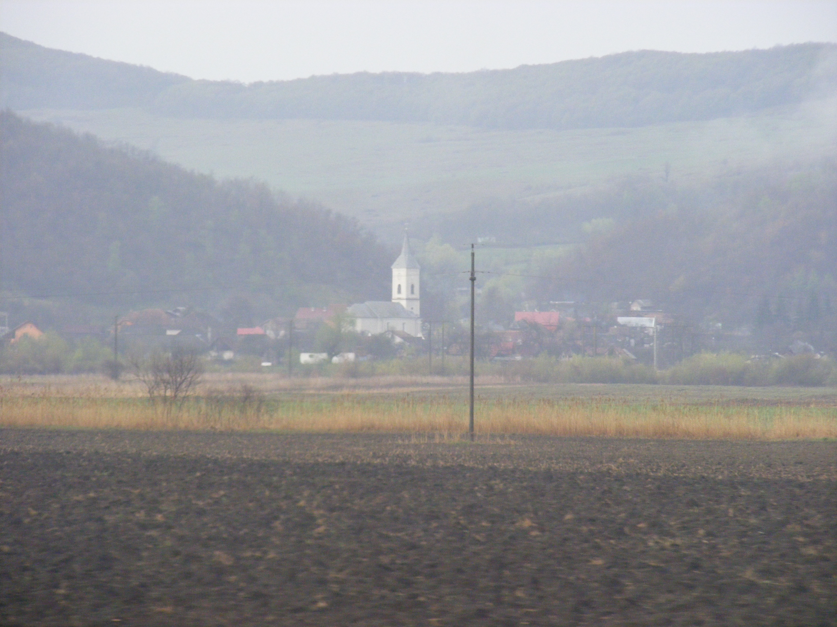 Árokalja (Arcalia), Romania, Bistriţa-Năsăud county.